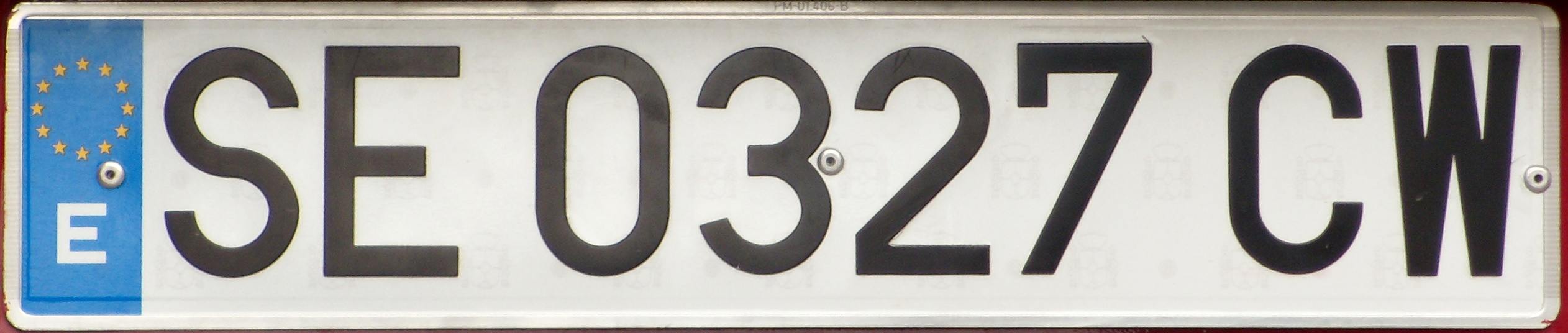 Spanish licence plate, old version (1971-2000)